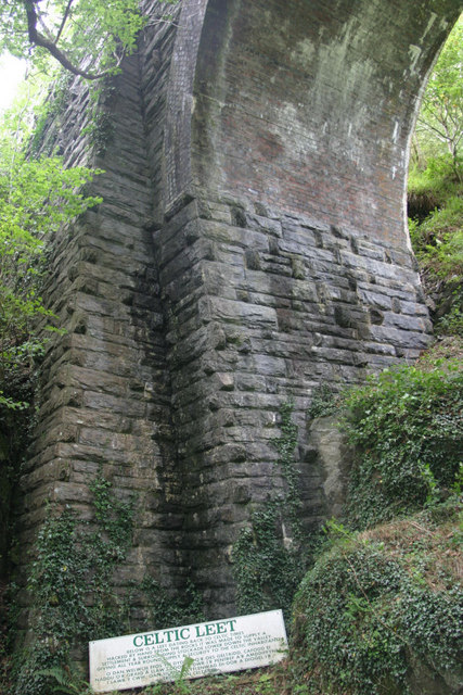 Railway Bridge over Afon Cynllo The Teifi Valley Railway, passes over Afon Cynllo. Below is a Celtic Leet.